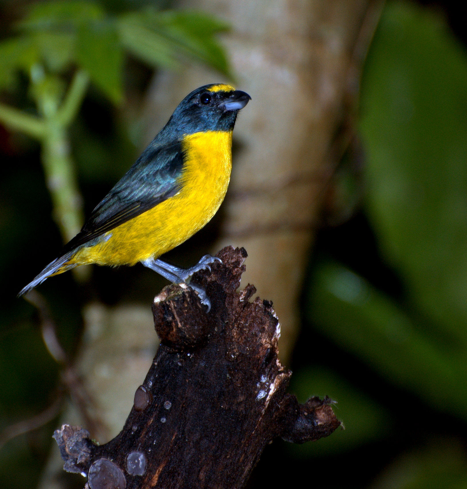 A Green-chinned Euphonia (Euphonia chalybea)